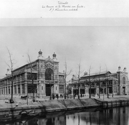 Utrecht, Netherlands, around 1898